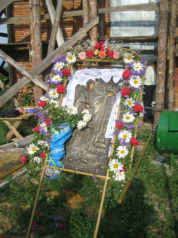 БОГОЛЮБСКОЕ